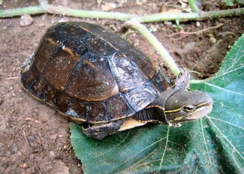 Cuora yunnanensis male by Ting Zhou / Torsten Blanck